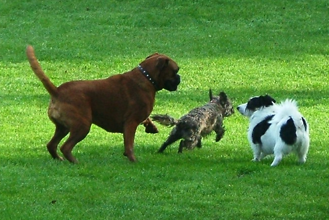 Dogs doing what they do best. "You chase me then I'll chase you"